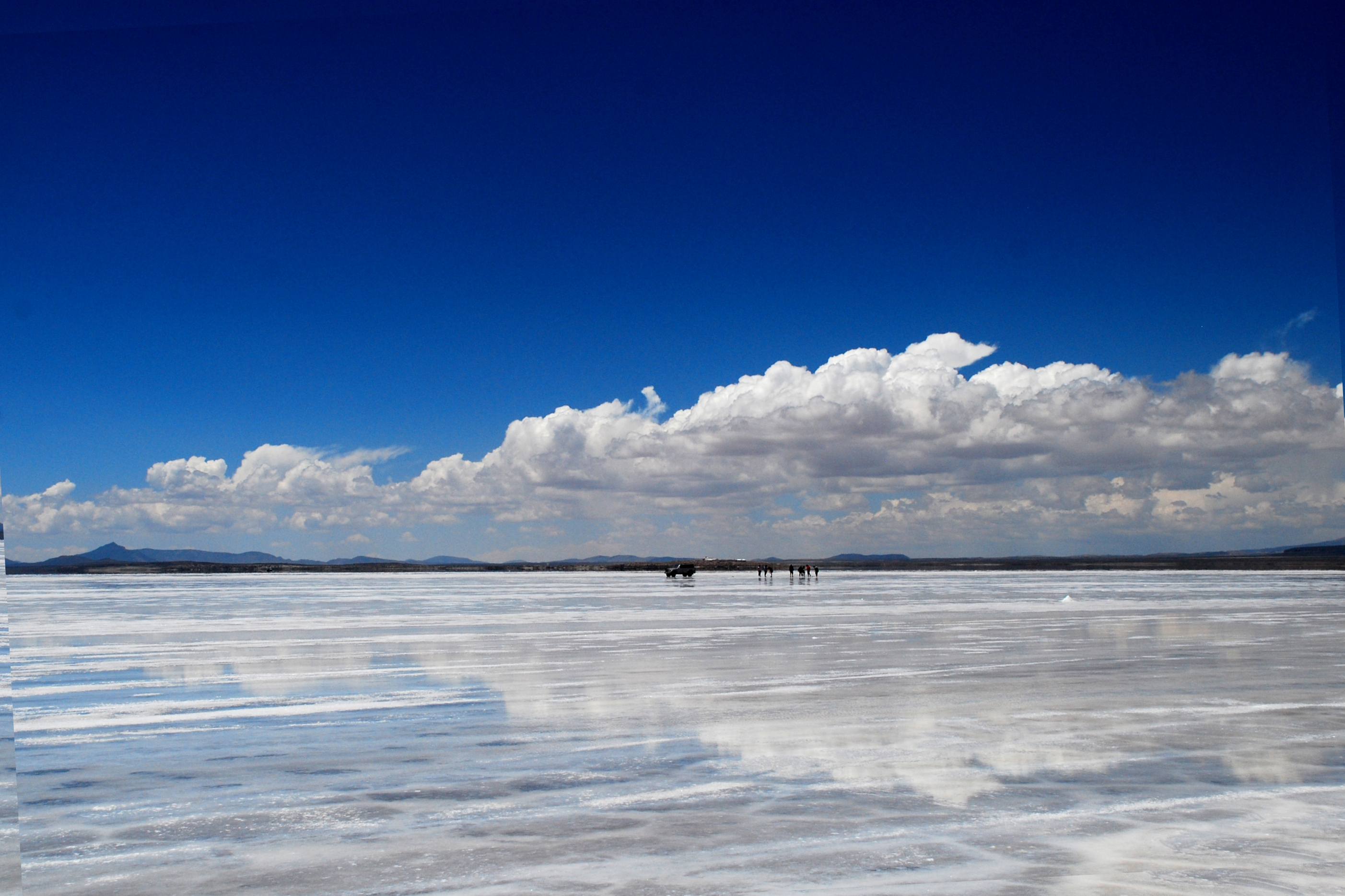 Salar de Uyuni or "Salt Flat", Department of Potosí, Bolivia.